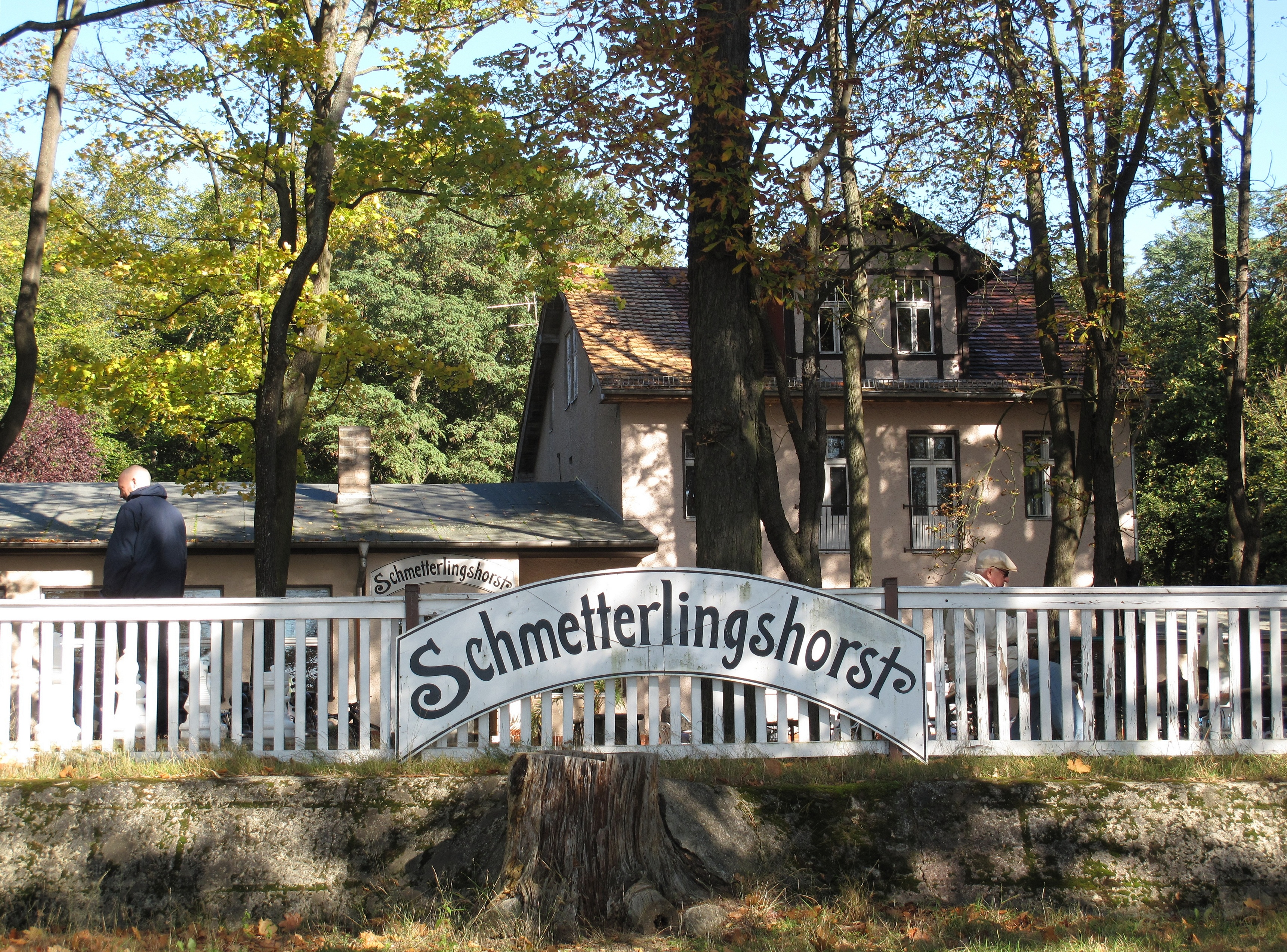 The Schmetterlingshorst is a historical trip restaurant at the Langer See (lake) in the locality Köpenick in Berlins borough Treptow-Köpenick, Germany. It was opened in 1898, heavily bombed in 1943 and reconstructed since 1947. Since the end of the 1990s the former garden restaurant is operated as a school, sports and hiking base by the sports association Treptow-Köpenick e.V. For excursionists the base offers snacks and tables, chairs and play attributes in the garden (state 2012). In an associated hall there is presented a butterfly collection, which is according to information from the base the second largest collection of its type in Europe and the largest in Germany. The name Schmetterlingshorst refers to this collection (Schmetterling – german for: papillon; horst – german for: nest).